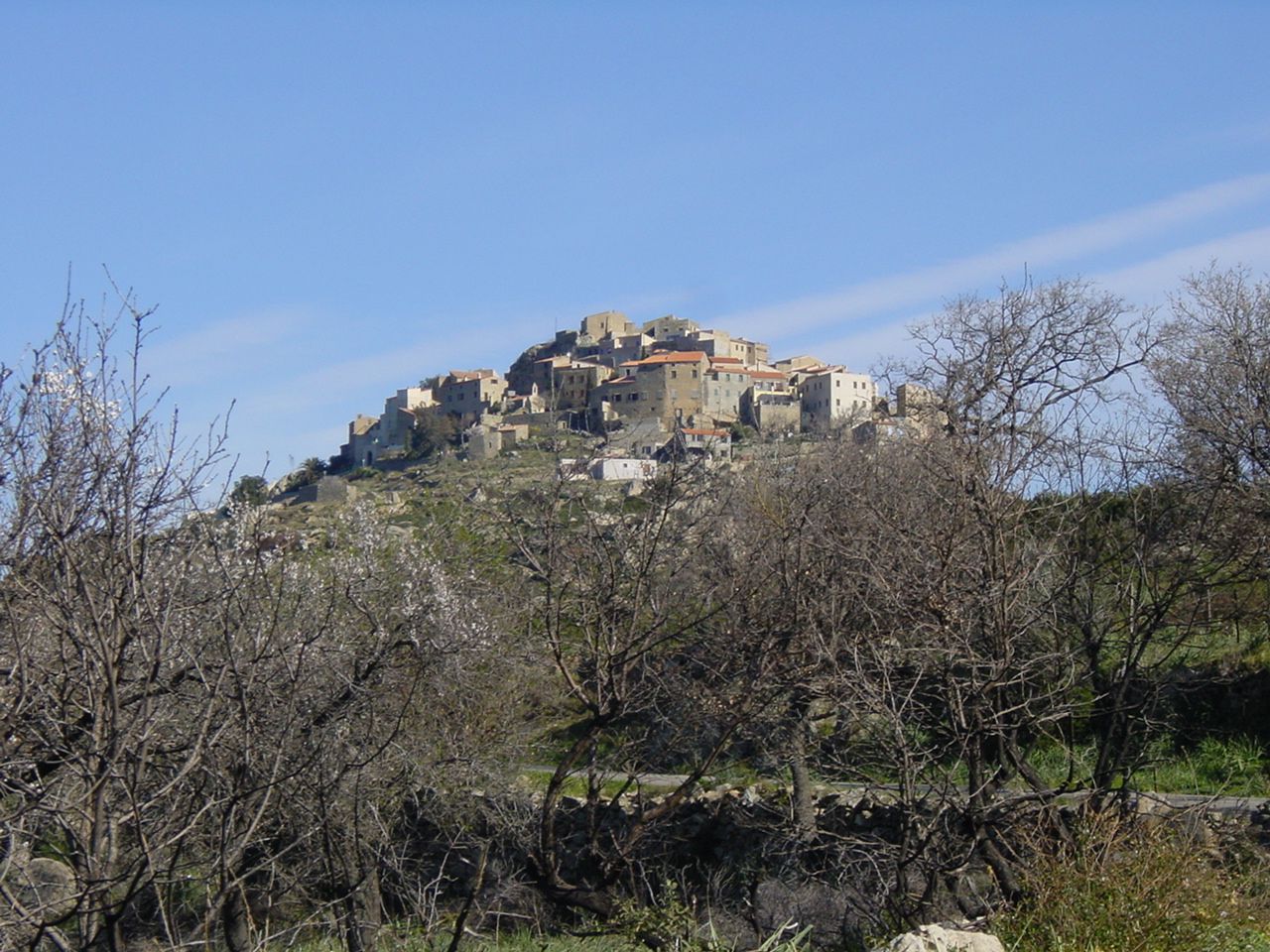 San Antonino village in Corsica (France)